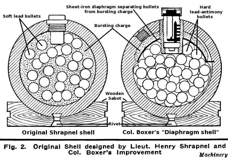 Diagram comparing Lieut. Shrapnel and Col. Boxer designs of early anti-personnel "Shrapnel" shells.